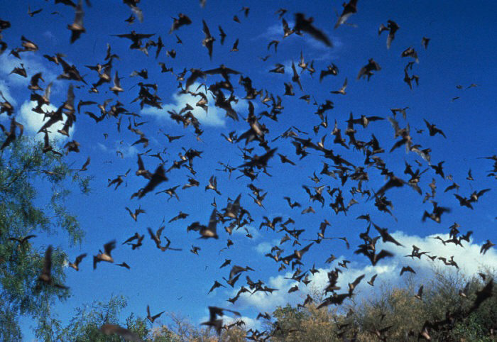 This image depicts a horde of unidentified bats, an animal know to be a possible carrier of the rabies virus